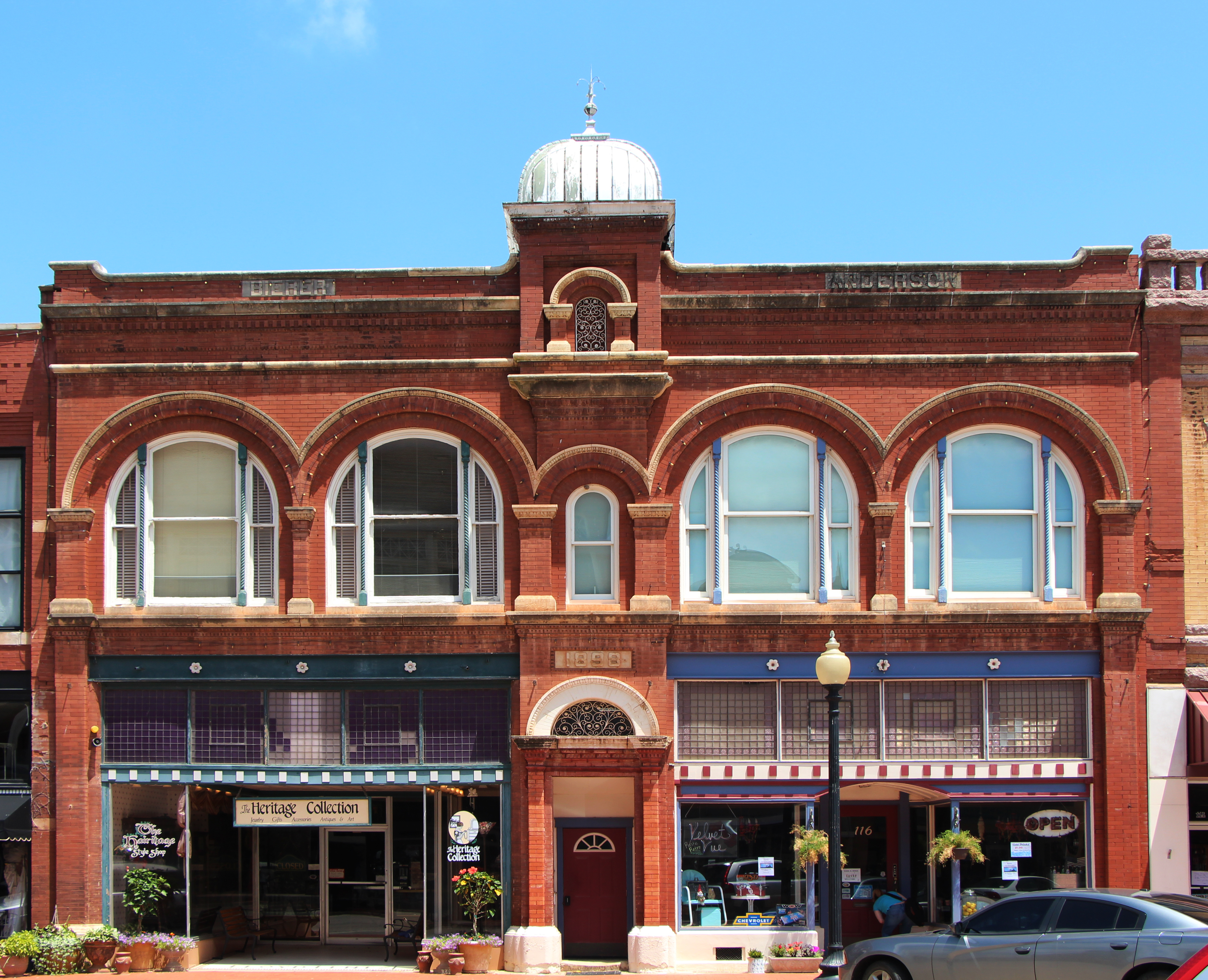 Bierer Anderson Building, Guthrie, Oklahoma